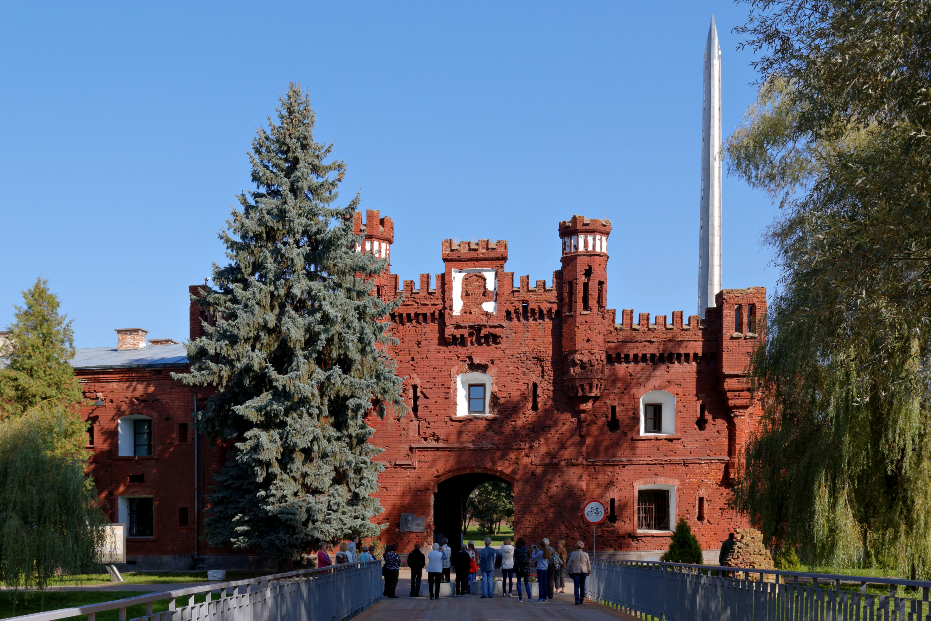 Brest. Brest Fortress. Kholm Gate